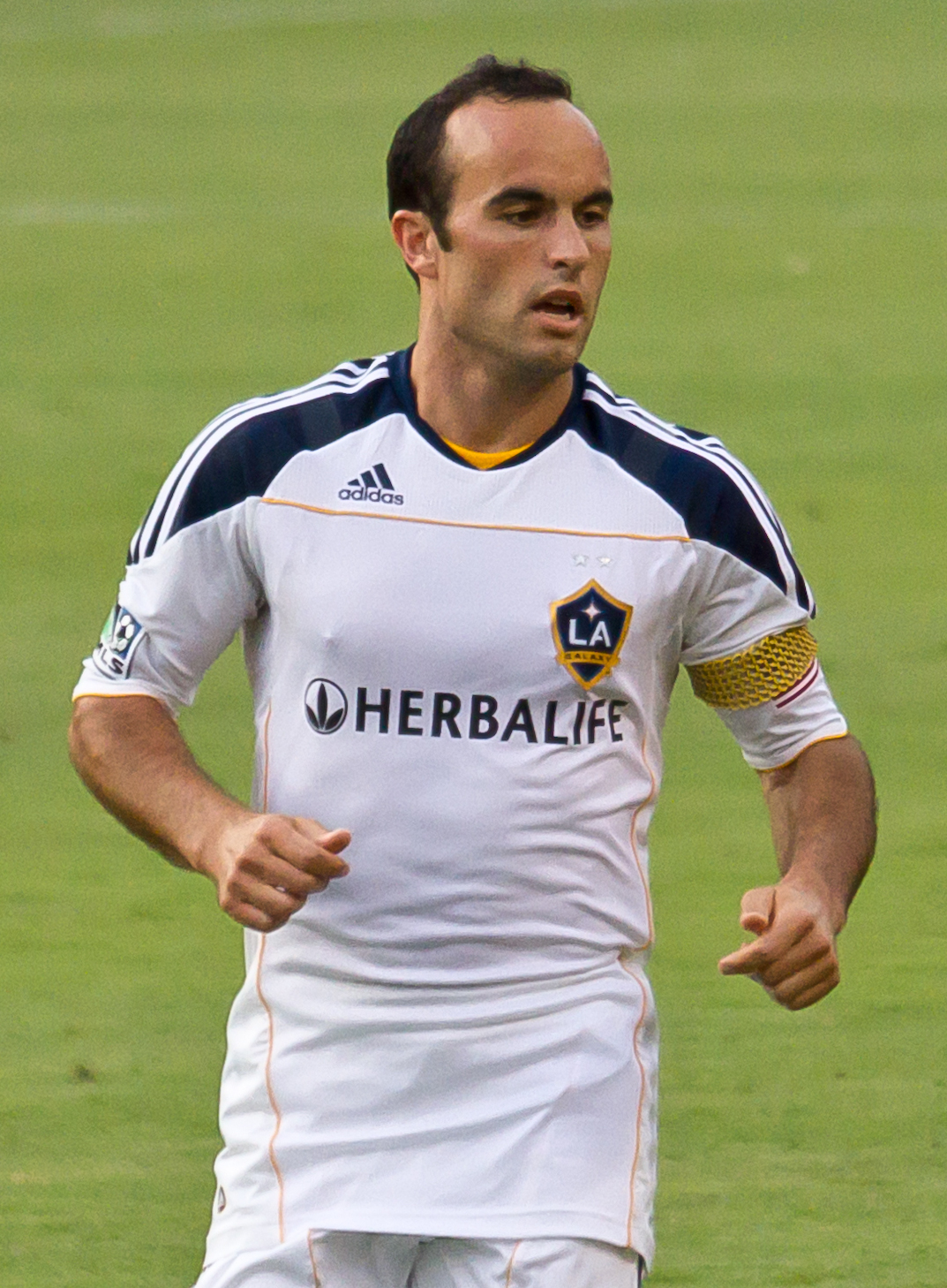 Landon Donovan plays a competitve match for Los Angeles Galaxy, 03OCT2010